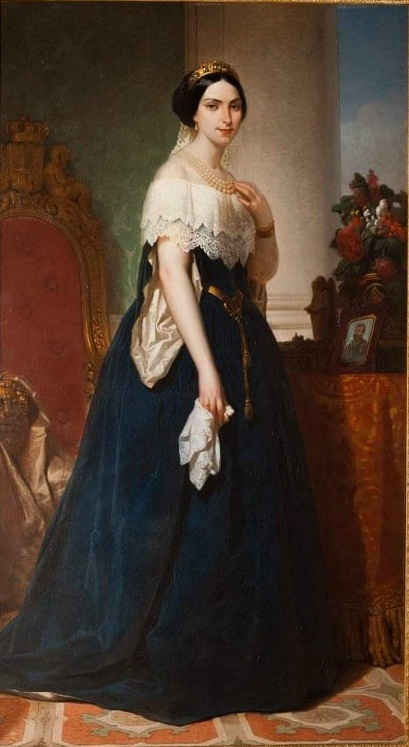 Portrait of Adelaide of Austria (1822-1855)